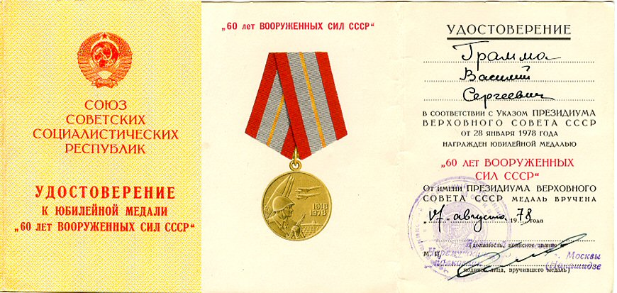 Award attestion of the Jubilee Medal "60 Years of the Armed Forces of the USSR"